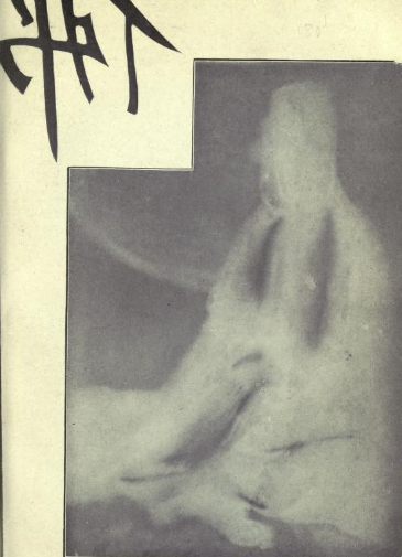 An alleged psychic photograph taken by Tomokichi Fukurai.